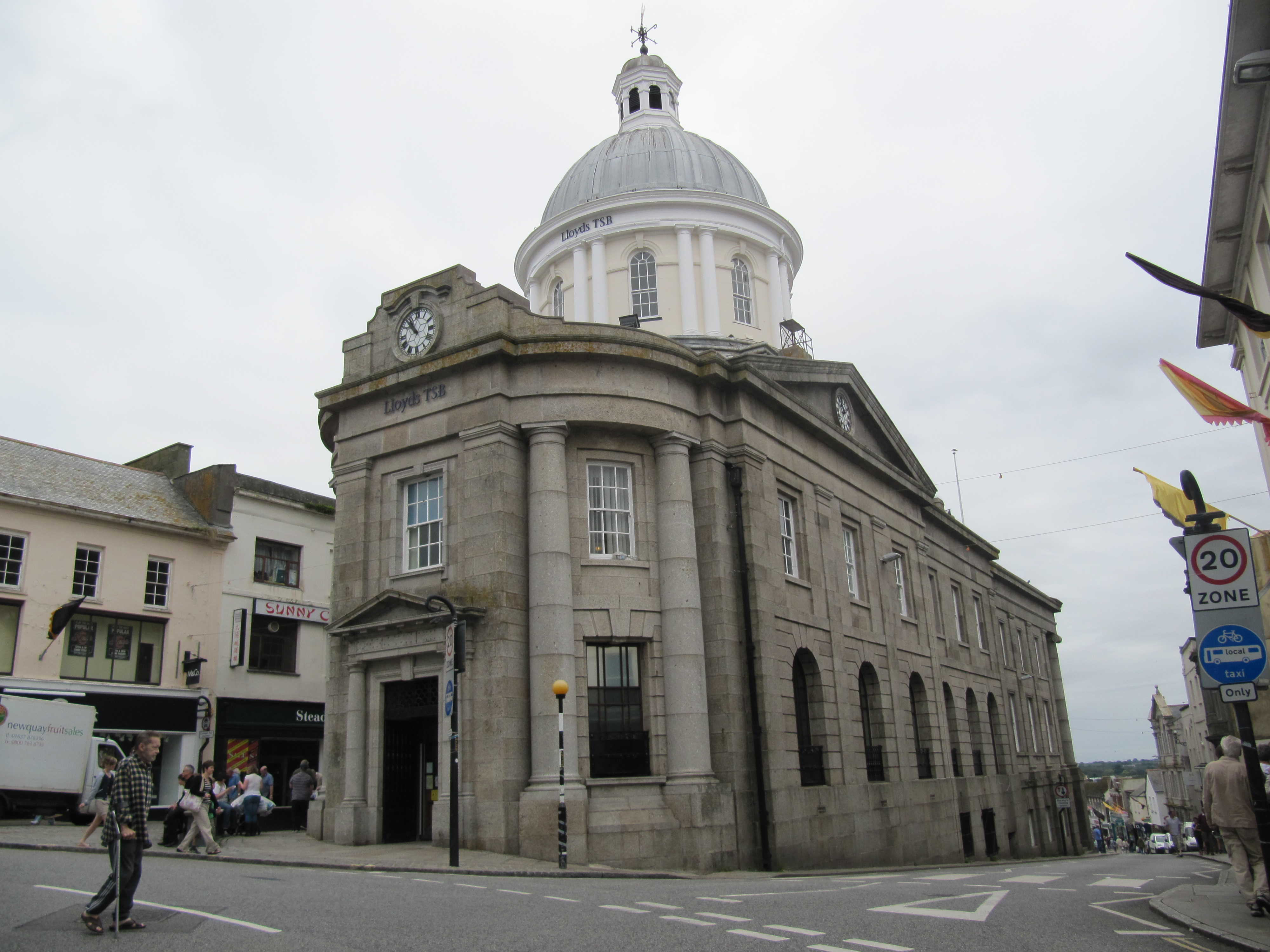 Penzance, Market House